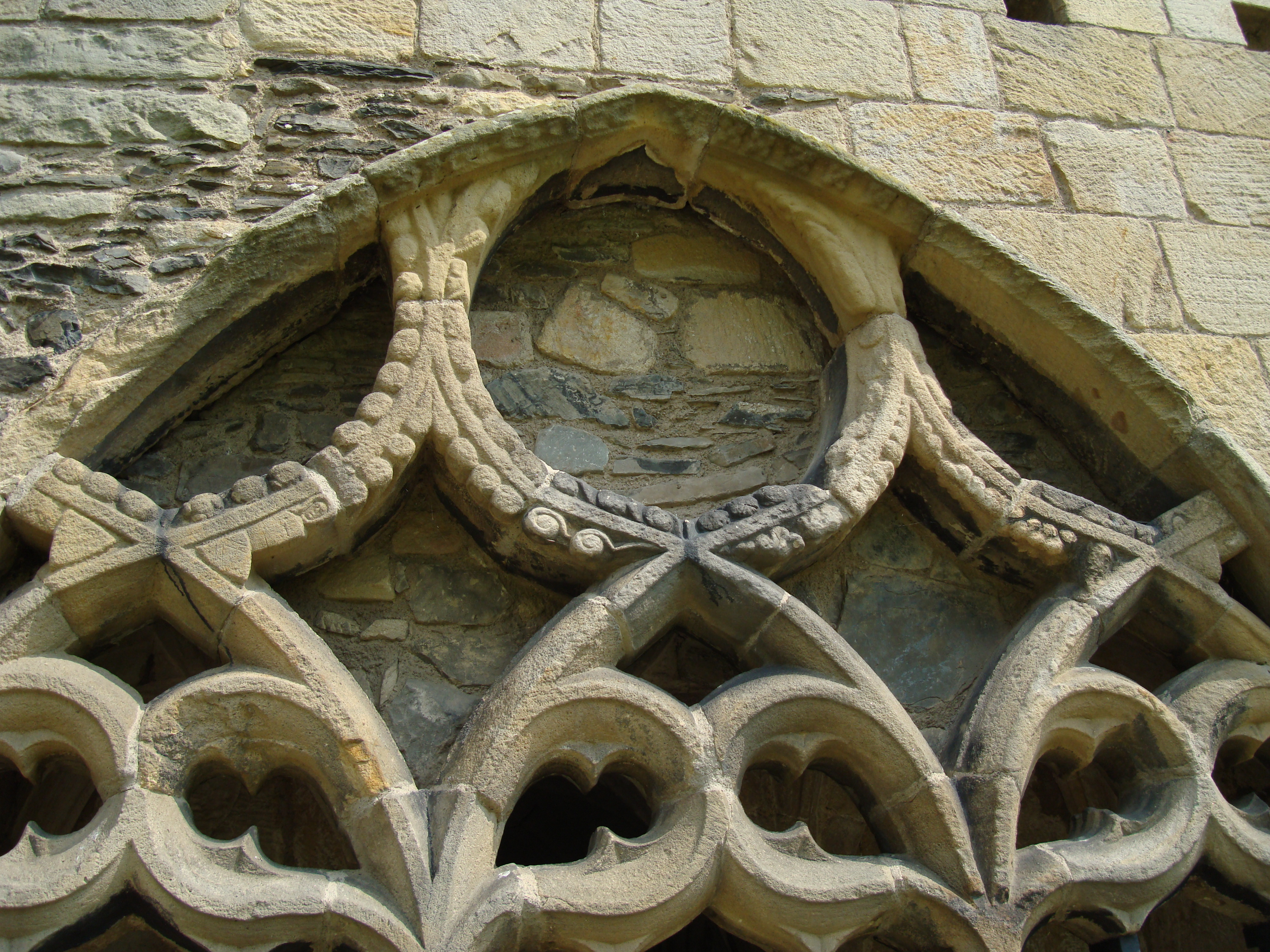 Photograph of Valle Crucis Abbey, Denbighshire, Wales - detail of tracery